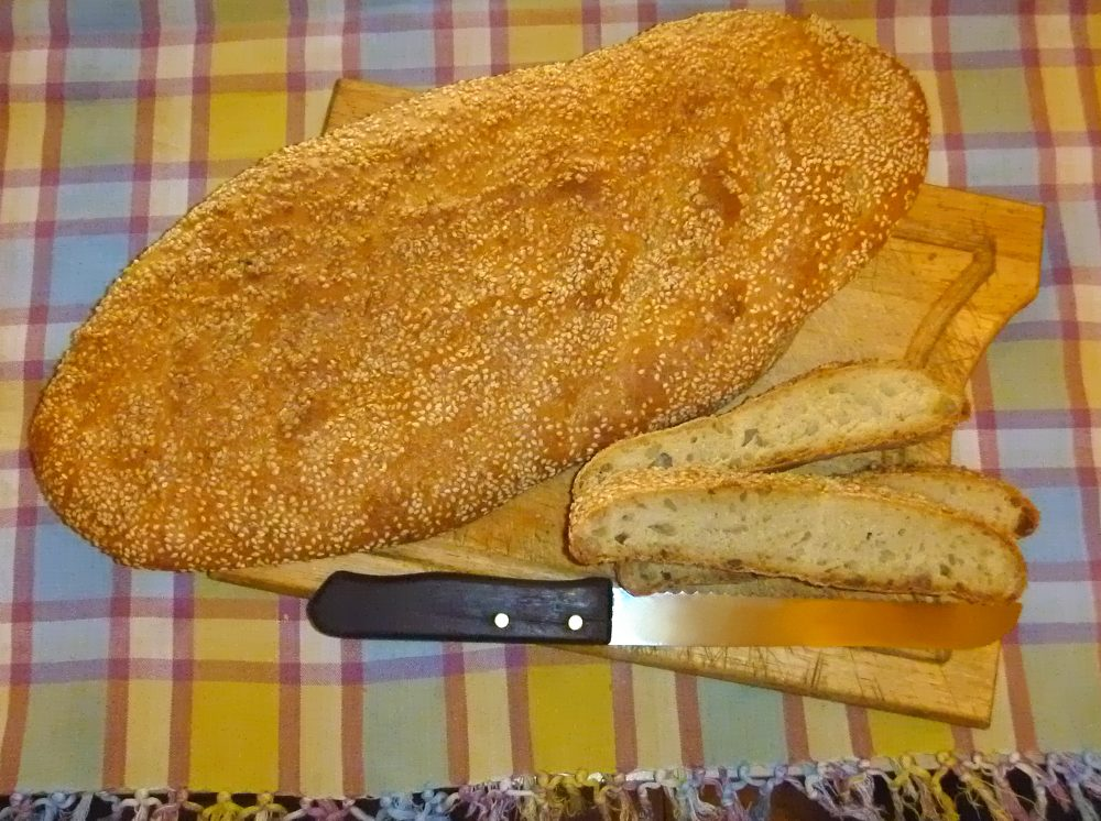 Lagana (Greek: λαγάνα), an azyme bread, baked only on Clean Monday (Greek: Καθαρά Δευτέρα).